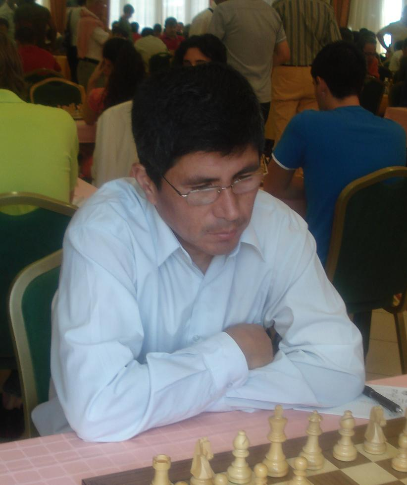 GM Julio Granda Zuniga Peru, XXVI Open Internacional d'Andorra.